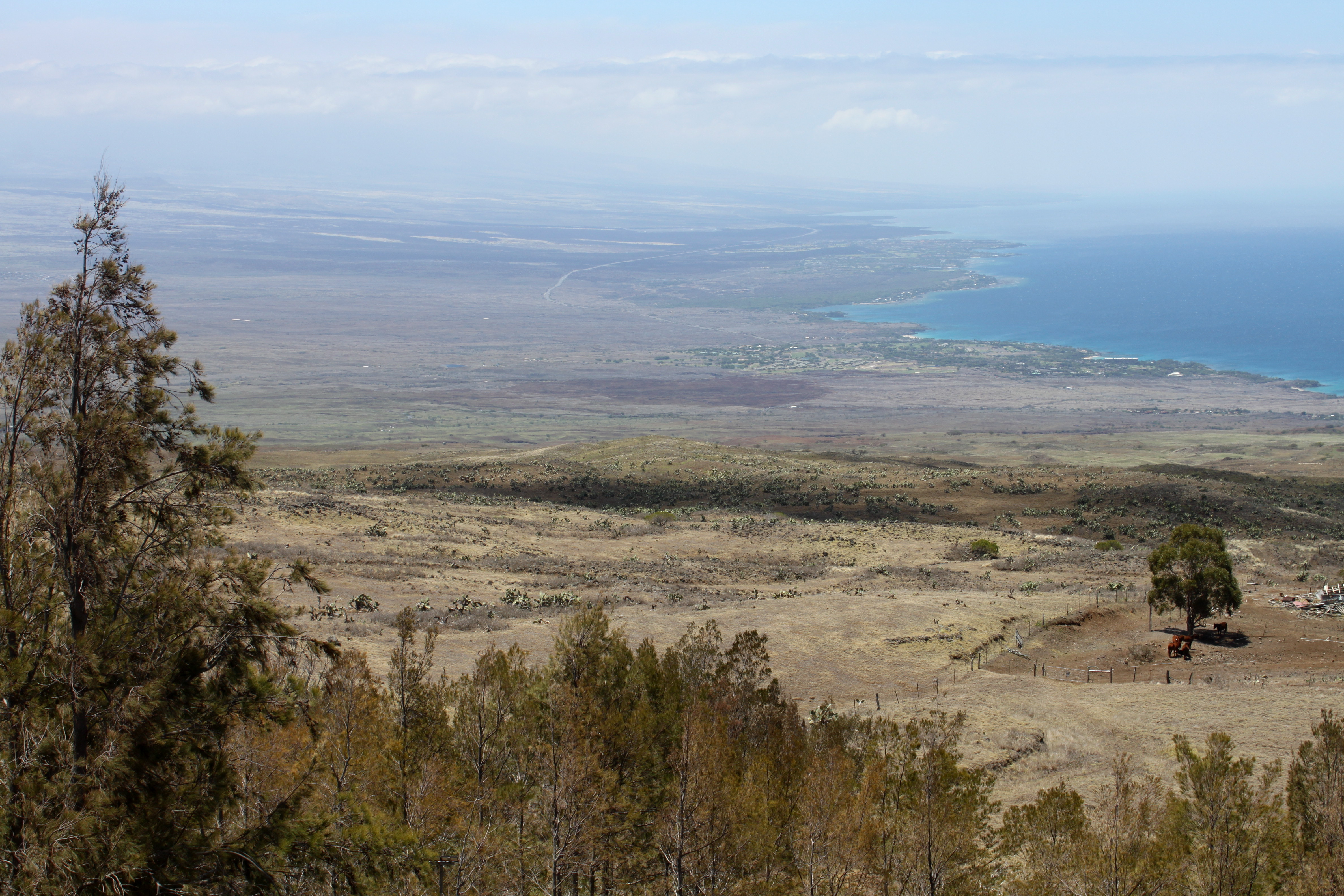 Hawaii: Overlooking the Kohala Coast